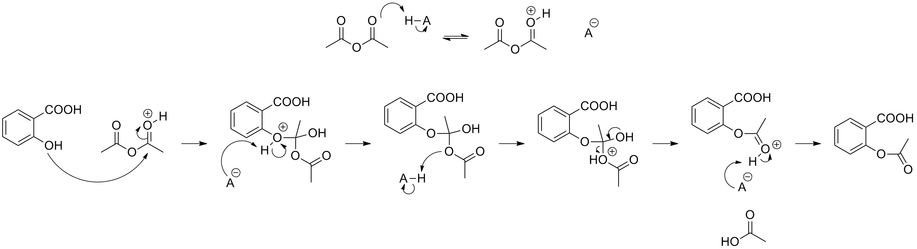 A mechanism describing the formation of acetylsalicylic acid (Aspirin) from acetic anhydride and salicylic acid.